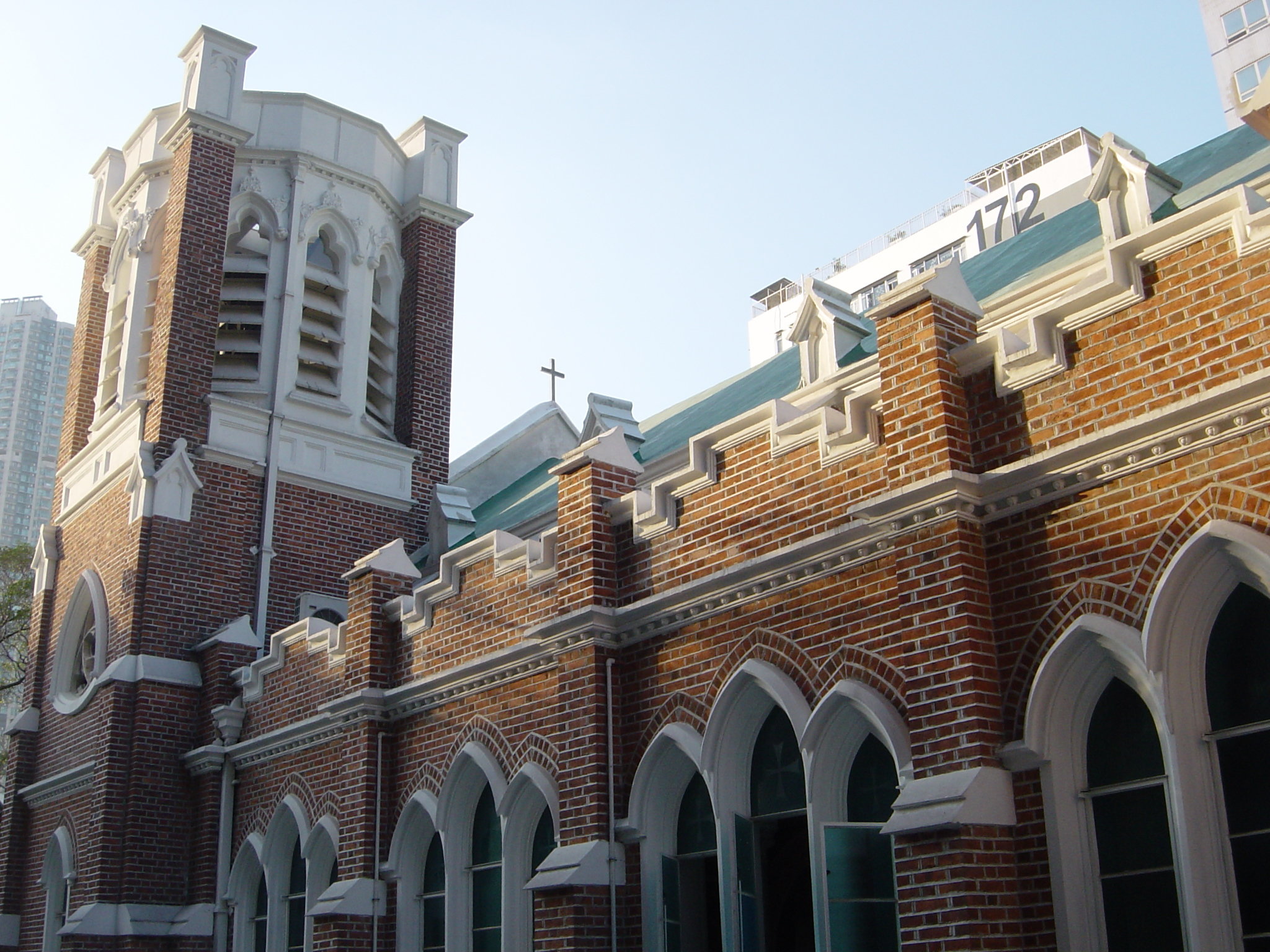 香港尖沙咀彌敦道聖安德烈堂。St. Andrew's Church, Tsim Sha Tsui, Kowloon, Hong Kong.